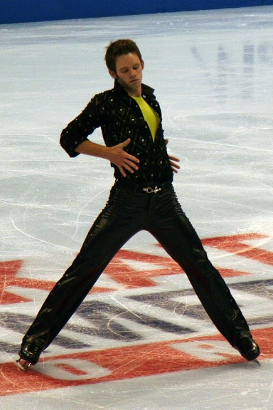 Christopher Mabee at the 2006 Skate America.